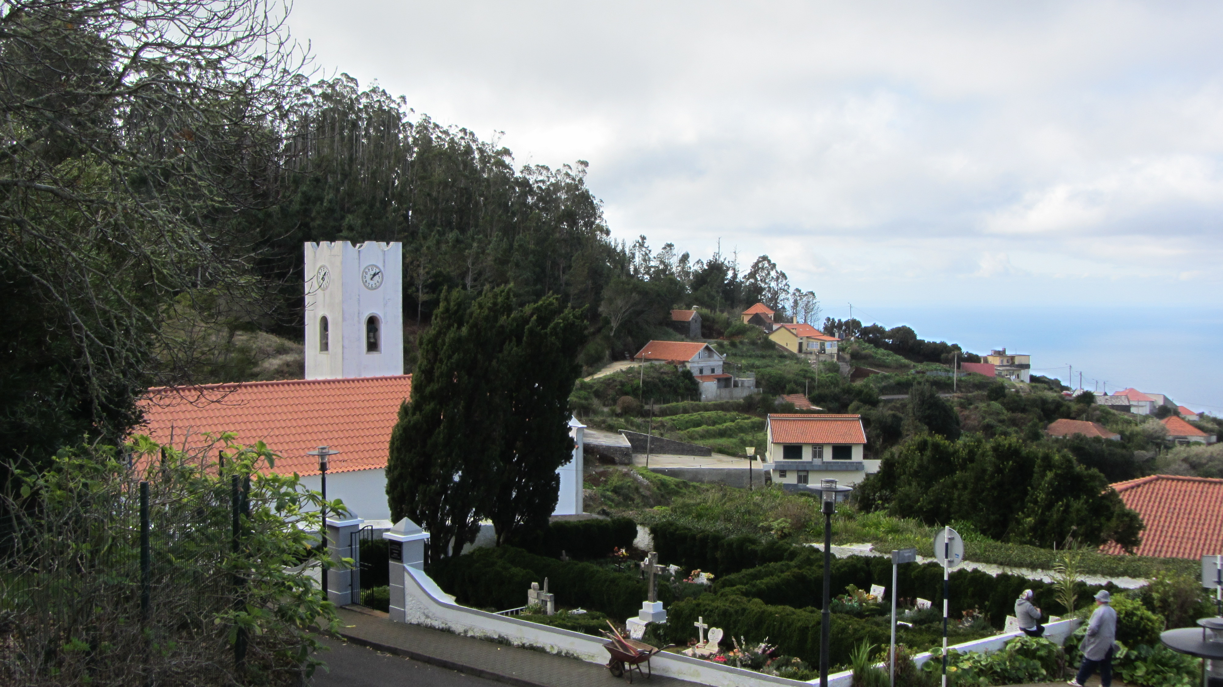 Village in the west